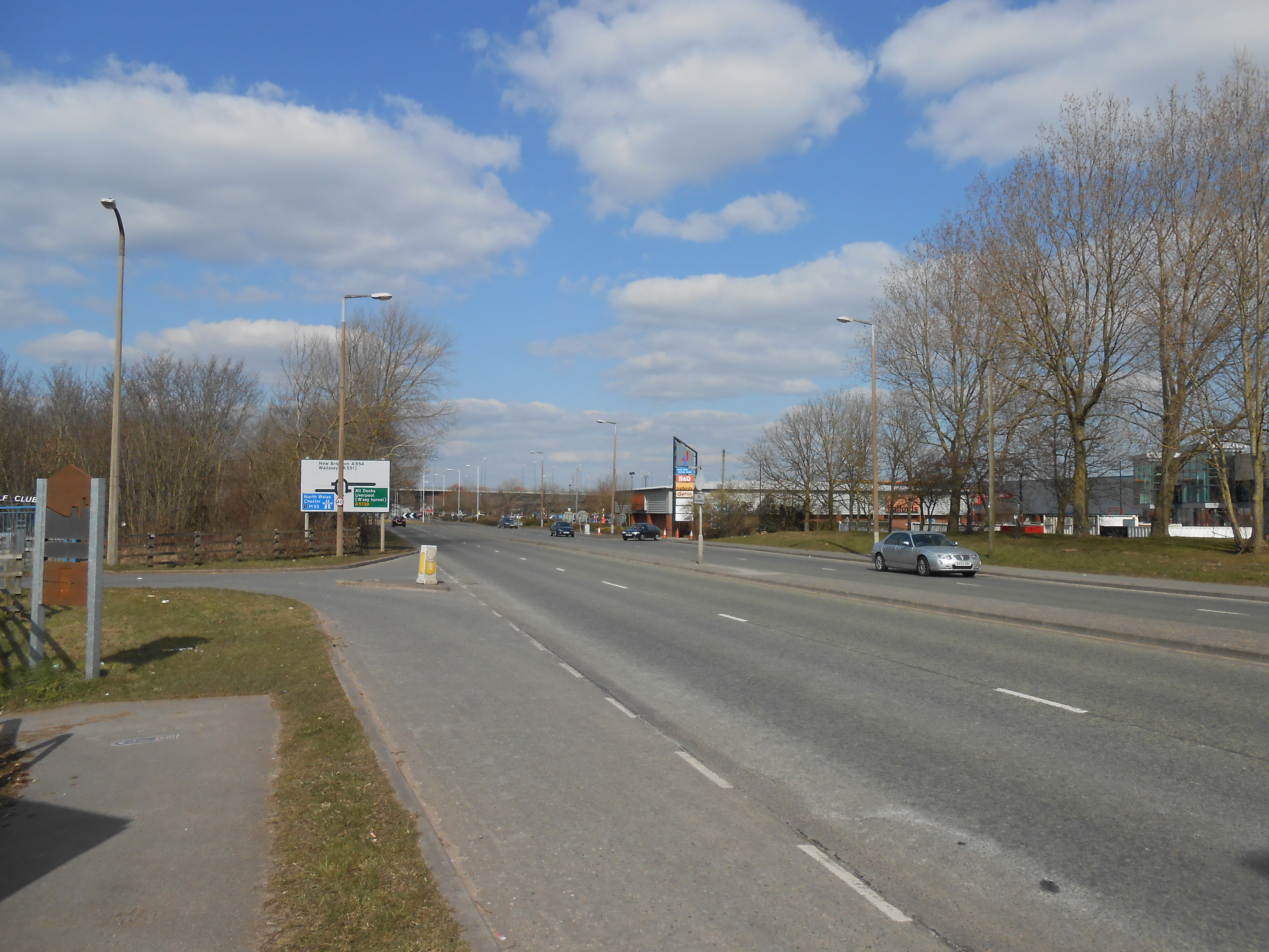 A554 road at Bidston Moss, Birkenhead, Merseyside, England.